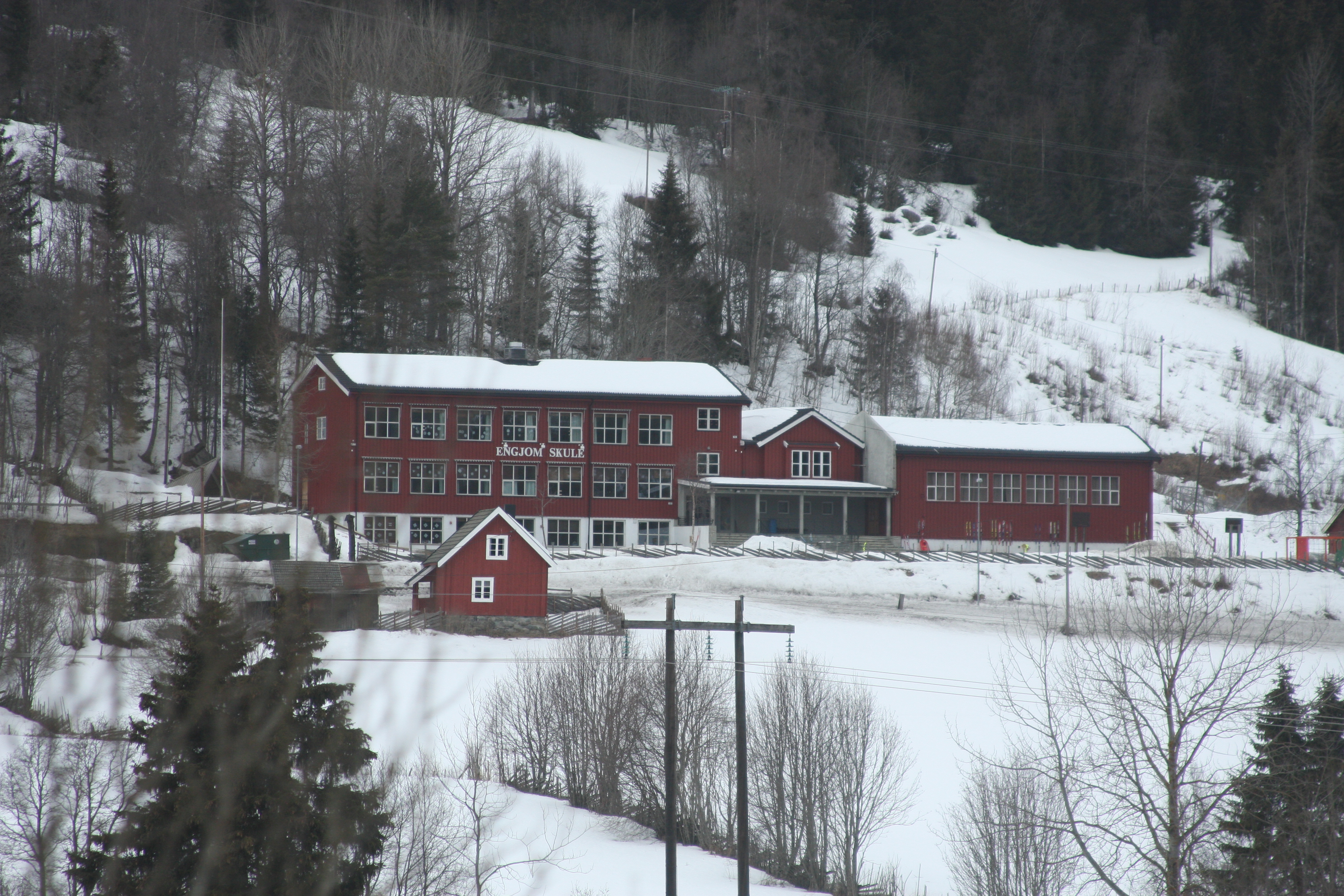 Engjom School, in Gausdal municipality, Oppland (Norway).